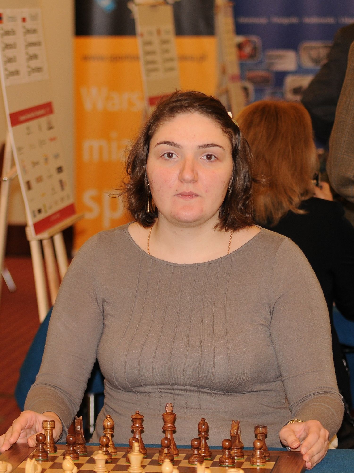 GM Nana Dzagnidze, European Chess Team Championship Warsaw 2013